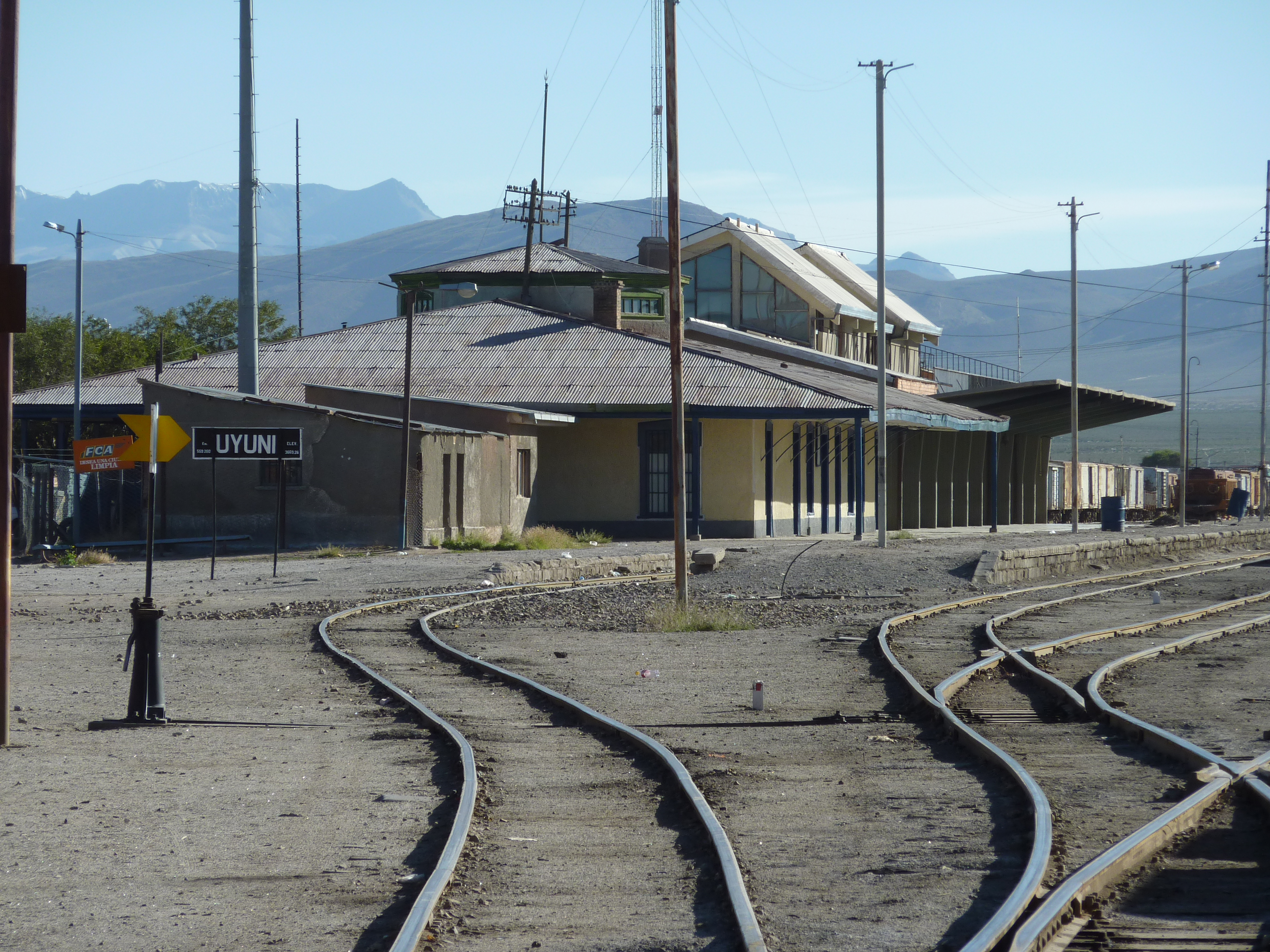 Railway station Uyuni in Bolivia